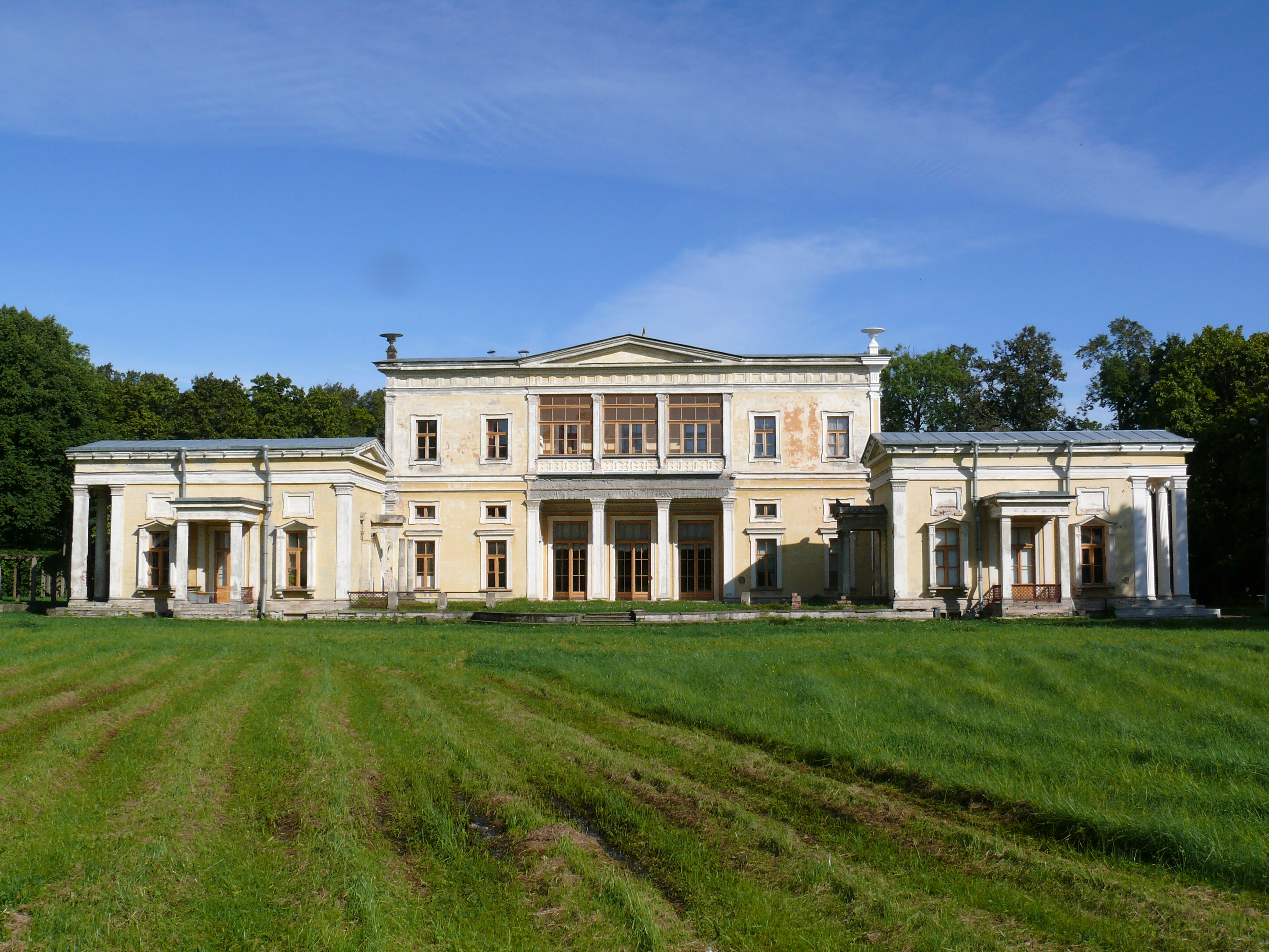 Southern Façade of Leuchtenberg Summer Palace in Sergievka (Peterhof, St. Peterburg, Russia), built in 1839–42 by arch. A. Stackenschneider for Maximilian, Herzog von Leuchtenberg, and his wife, born Grand Duchess Maria Nikolaievna, a daughter of Emperor Nicholas I of Russia. Now houses St. Petersburg State University’s Biological Research Institute.